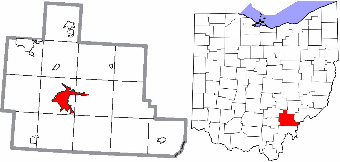 Map highlighting City of Athens, Athens County, Ohio, United States.